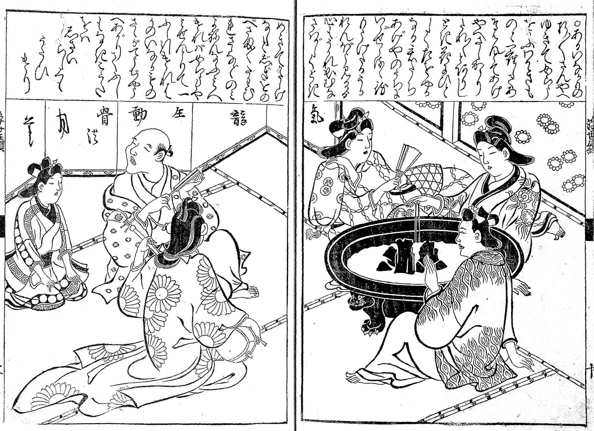 pages from a Ukiyo-book